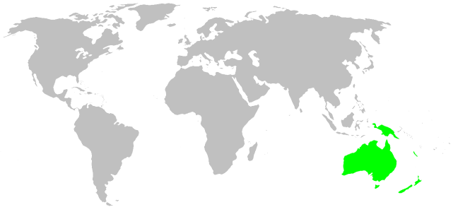 Lamponidae habitat distribution, drawn after Platnick: World Spider Catalog 7.0. This is not at all a precise rendering of the distribution! If you have better information, please replace this map, or send me the info, and i will redraw it.